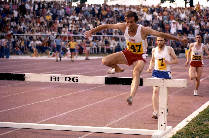 Bronisław Malinowski at a meeting in Fürth, Germany, some time before the Olympic Games 1976